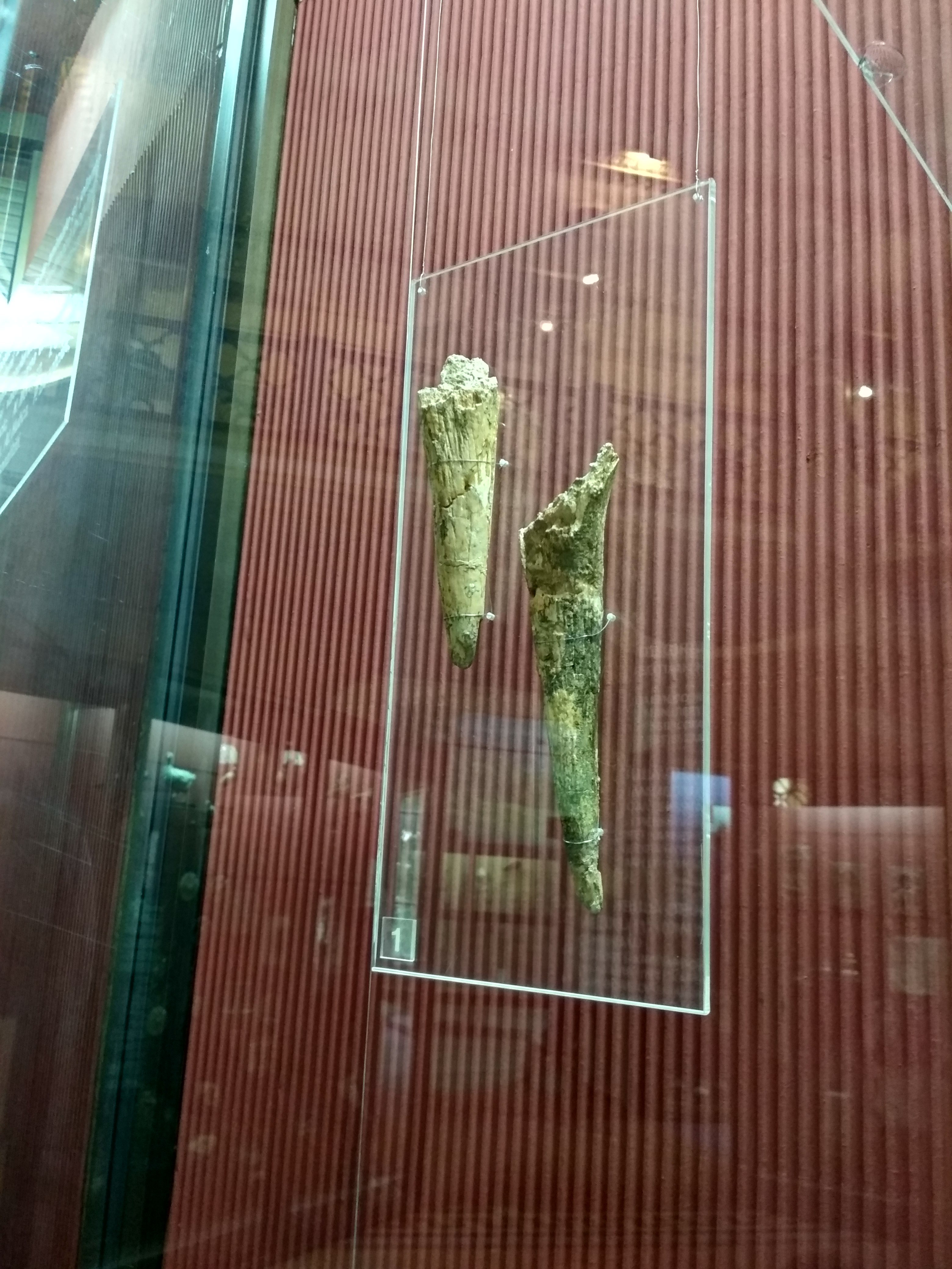 Horns of a fossil giraffe Palaeotragus rouenii (meotian – 9-8 mln. years), found in the Taraclia ravine, Taraclia village, Căușeni district, Moldova